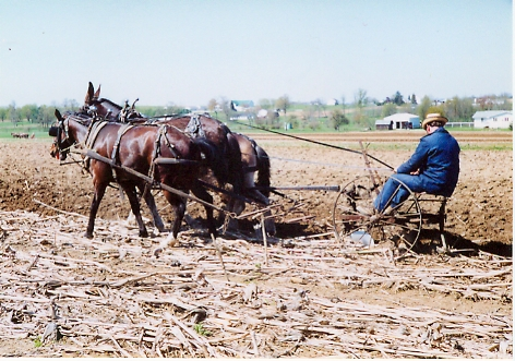 Amish farmer plowing fields with mules in Mt. Hope, Holmes County, Ohio, USA